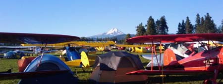 The 2010 Hood River Fly-In at Western Antique Aeroplane and Automobile Museum (WAAAM). Many pilots camp in tents under their wings. You can See Mt Hood in the background. Hood River, OR